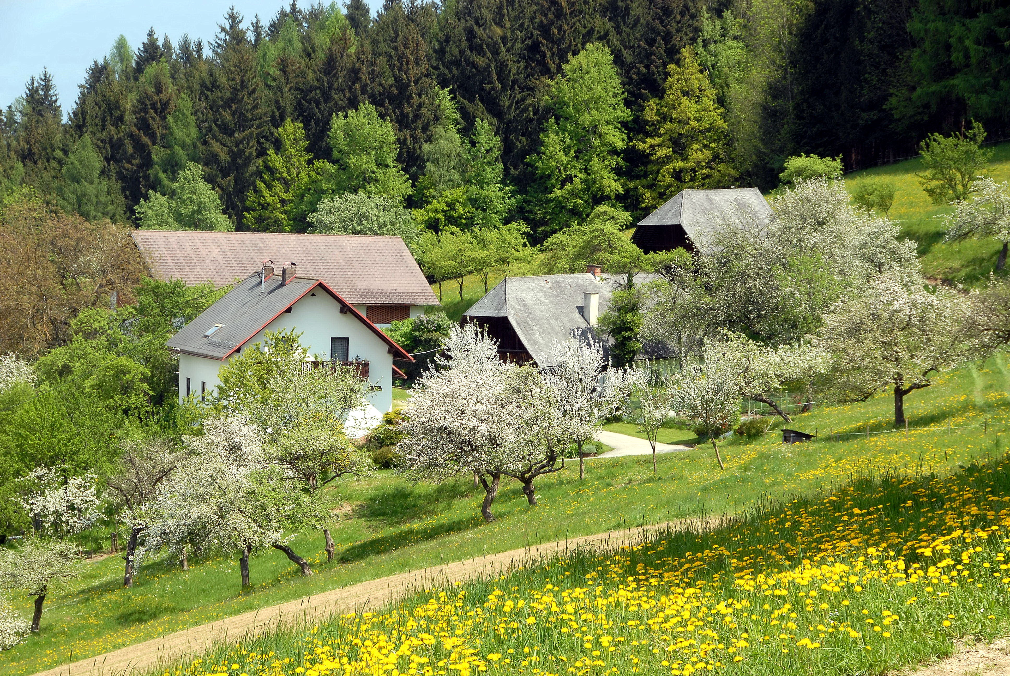 Grange with blooming orchard in the countryside of Grutschen, community Griffen, district Voelkermarkt, Carinthia, Austria